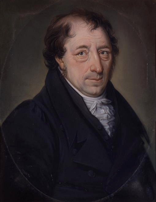 Franc van der Goes (1772-1855). In 1799 he was a member of the Great Assembly of Notables. Member of the Provincial Council of North Brabant. Mayor of Loosduinen from 1811-1813.